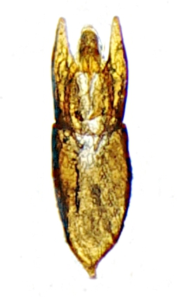 Helophorus aquaticus aedoeagus